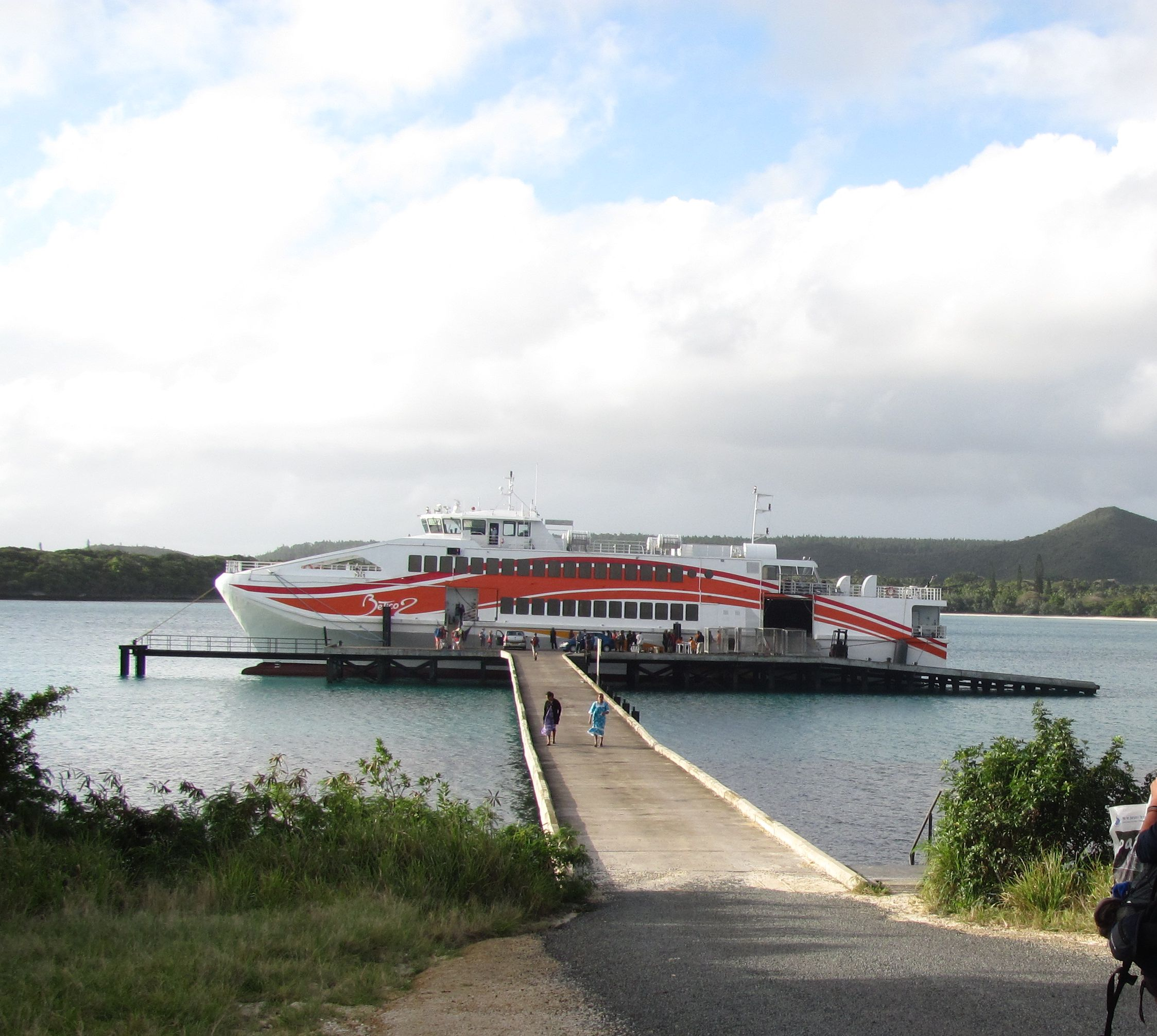 Wharf, Kuto, L'Île-des-Pins, New Caledonia